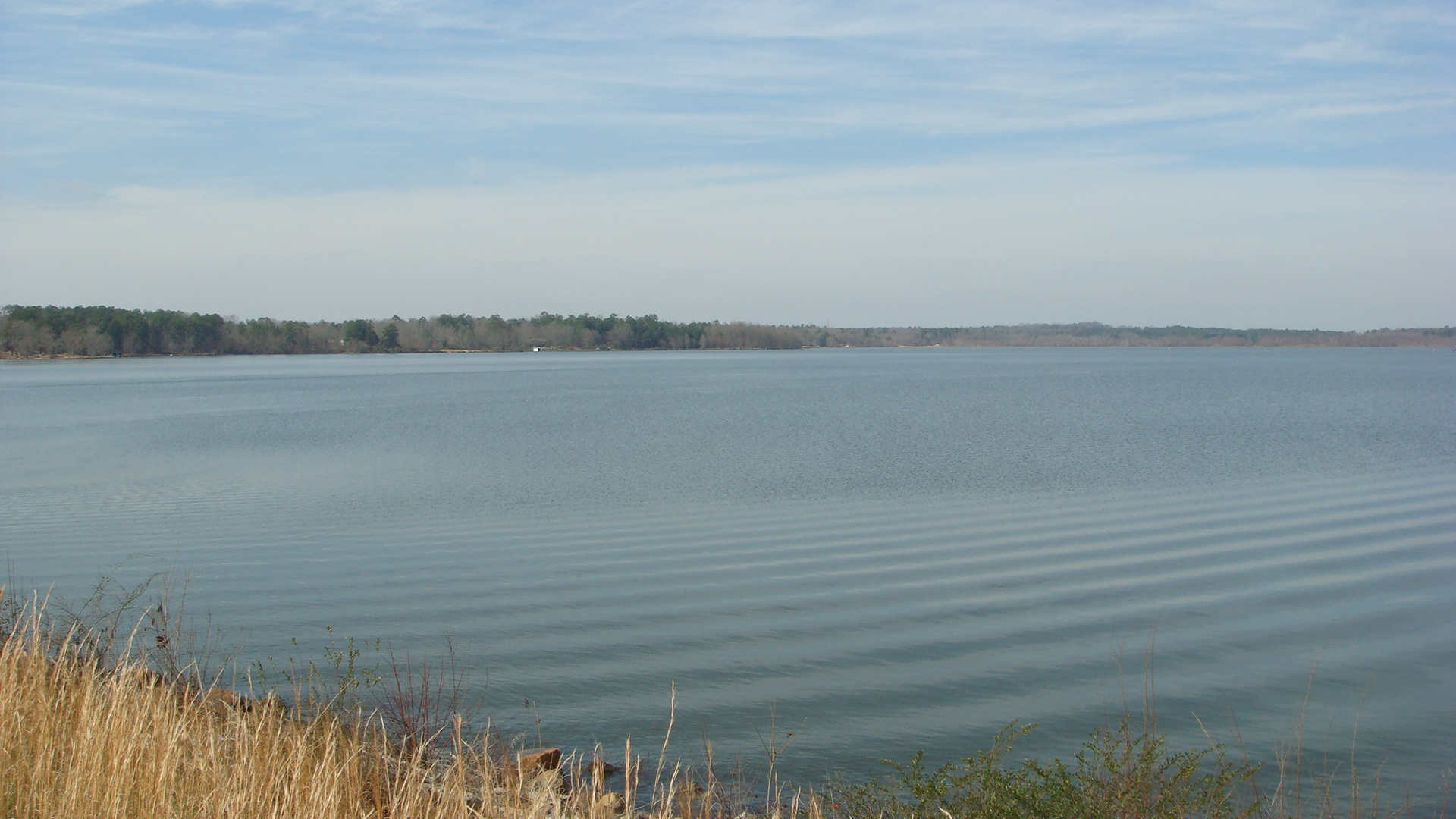 A view of the calm Lake Tobesofkee in the wintertime. Taken facing Northwest from beside the Lower Thomaston Road Bridge.